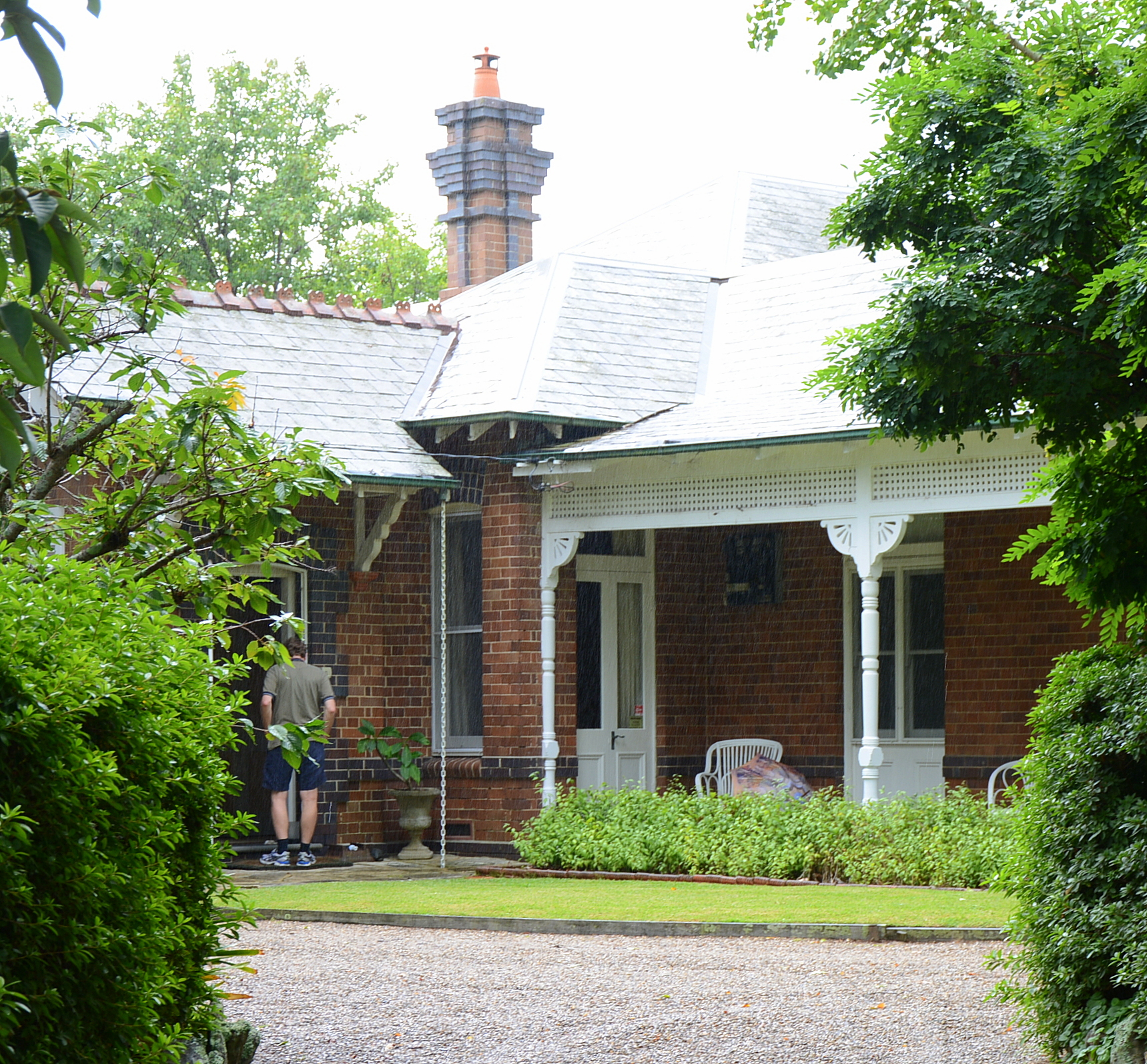 Cossington, former home of Australian painter Grace Cossintgton Smith, Ku-Ring-Gai Avenue, Turramurra, Sydney